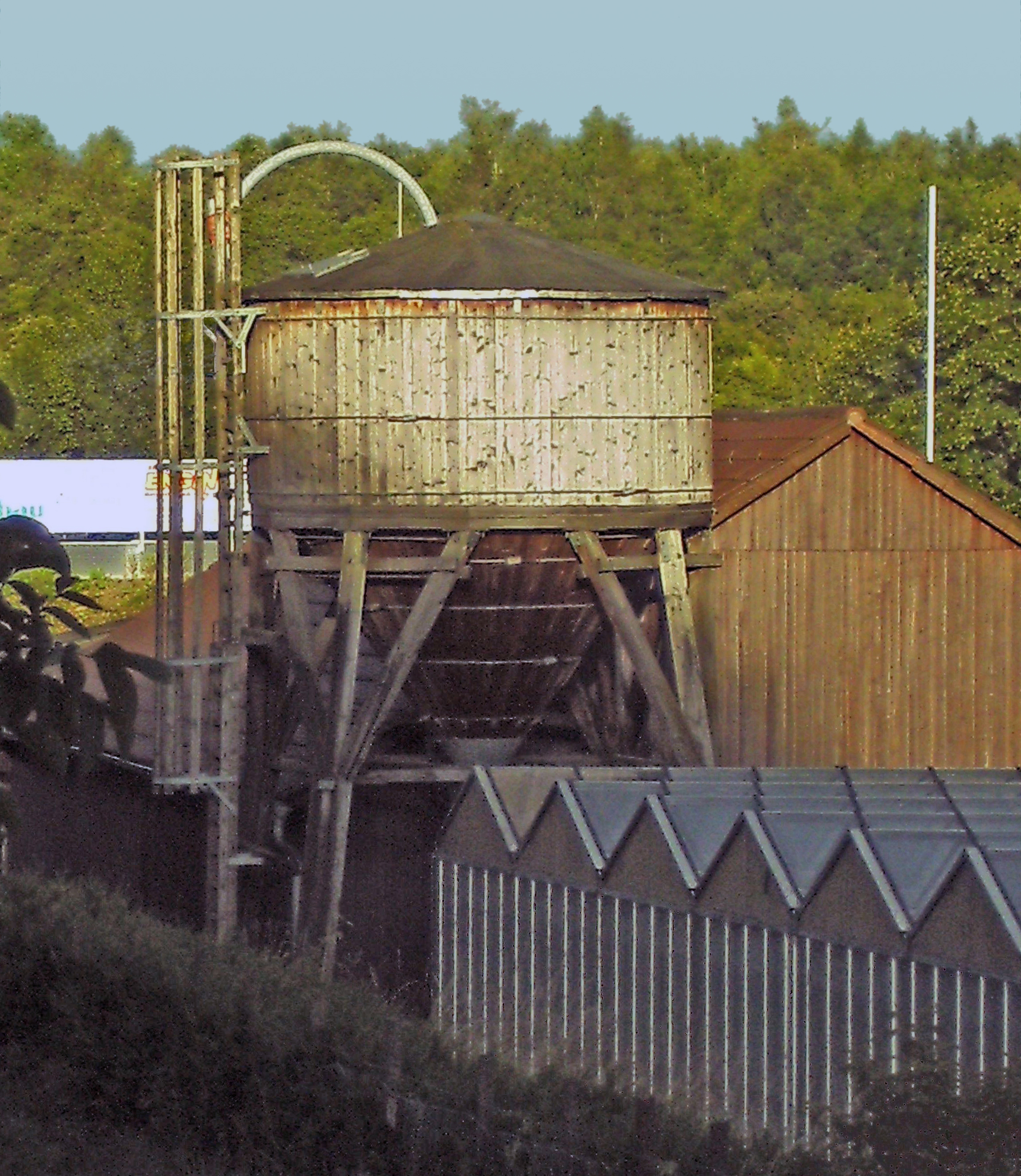 Wooden water tower at a gardening company in Kornwestheim, Baden-Württemberg, Germany